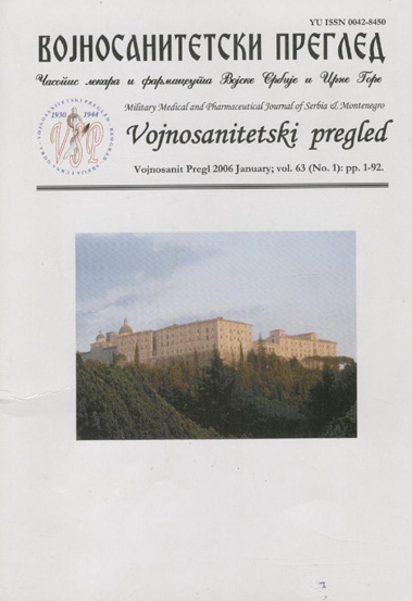 Cover of Scientific journal Vojnosanitetski pregled, 2006, Serbia